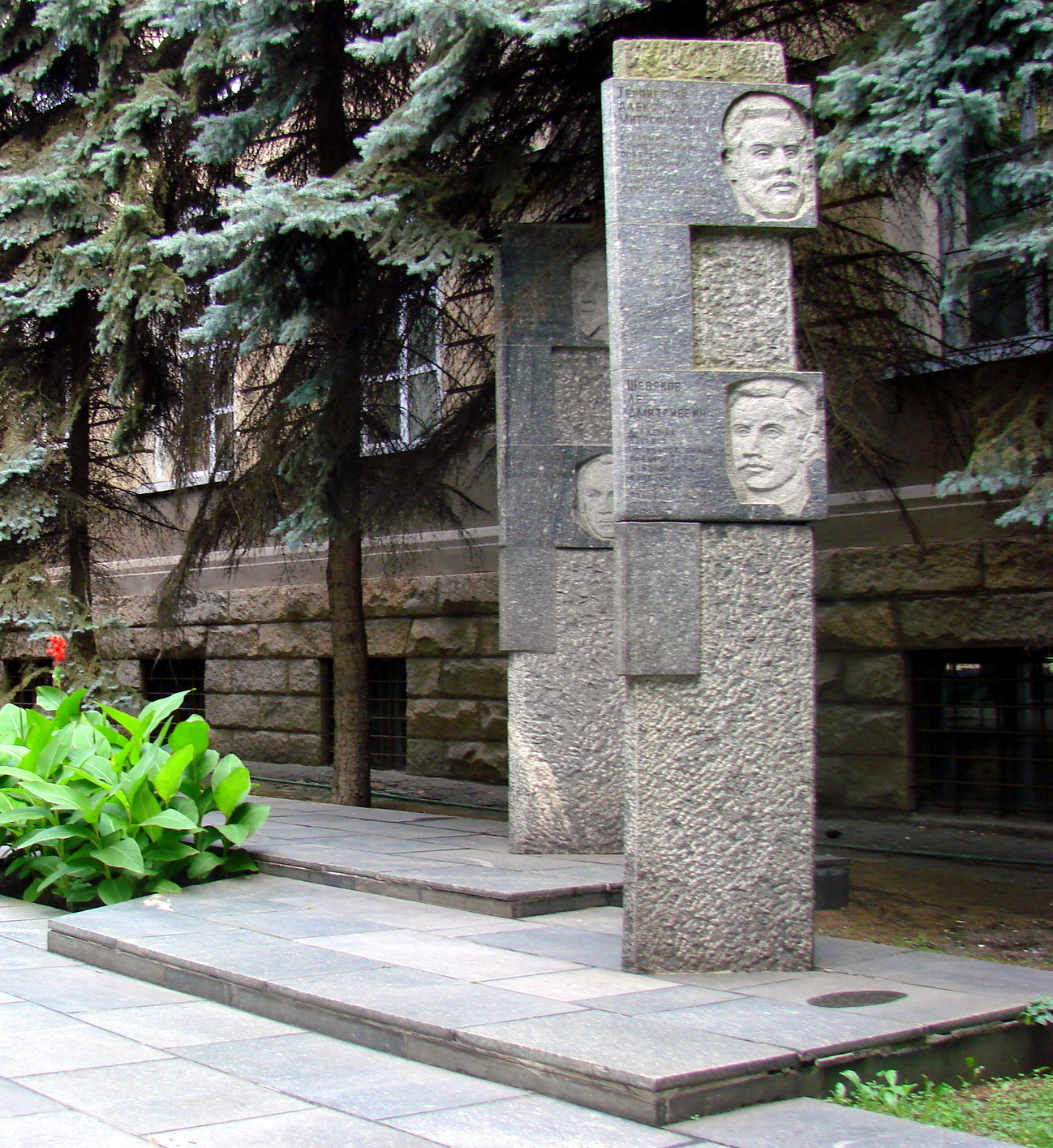 Monument to famous alumni at the National Mining University of Ukraine, Dnipropetrovsk, Ukraine